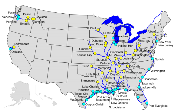 Inland waterway connections